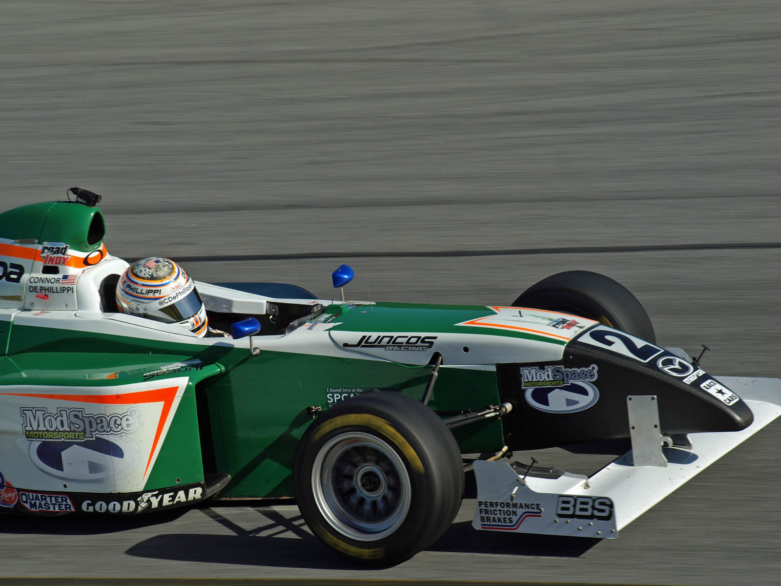 Connor De Phillippi in the Star Mazda Championship race at the 2012 Petit Le Mans